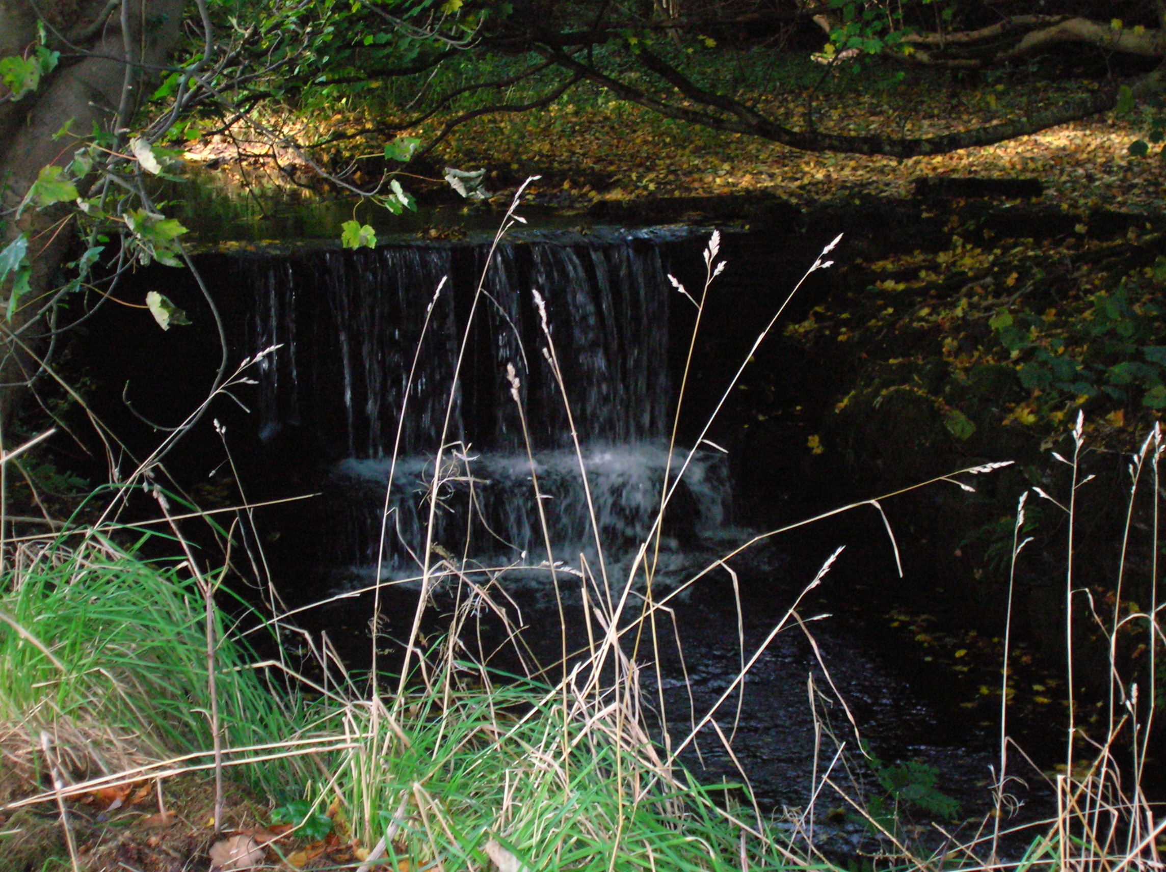 Small dam for a Hydroelectric power scheme of 1992.